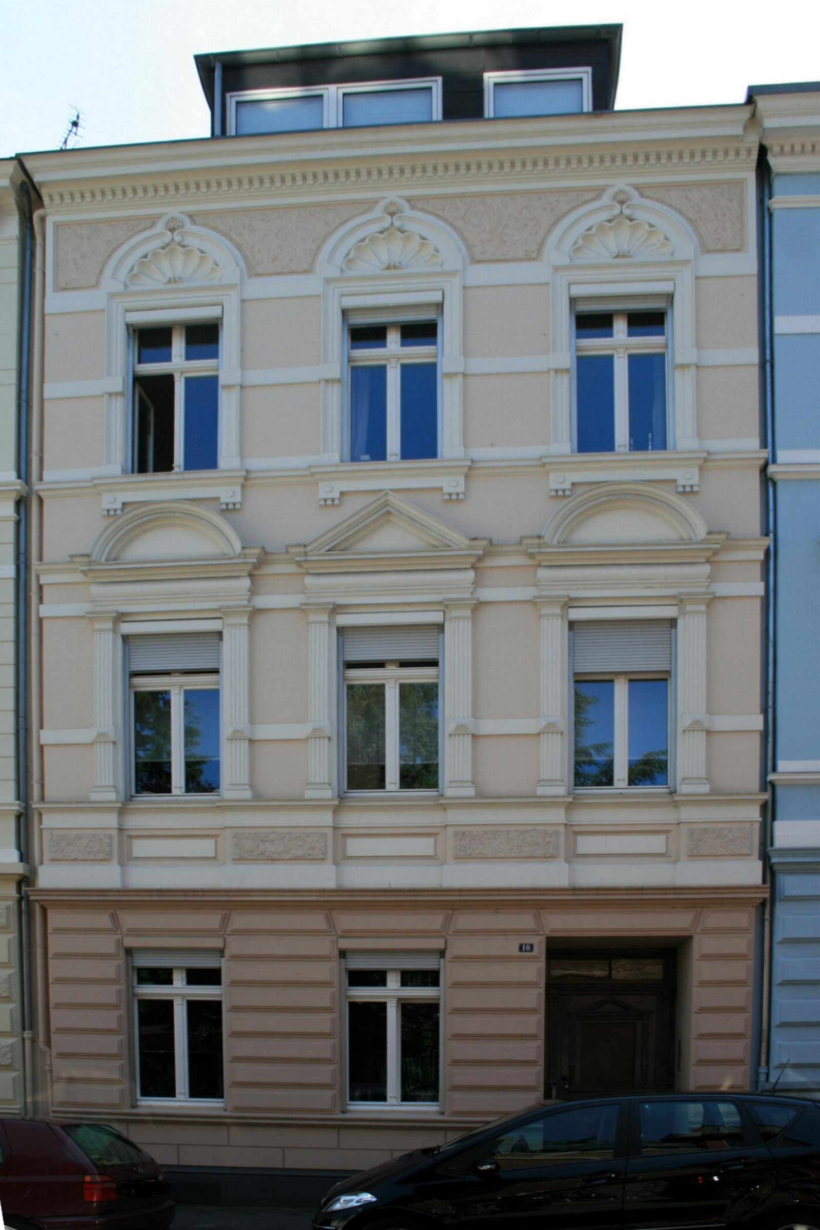 Cultural heritage monument No. F 027 in Mönchengladbach